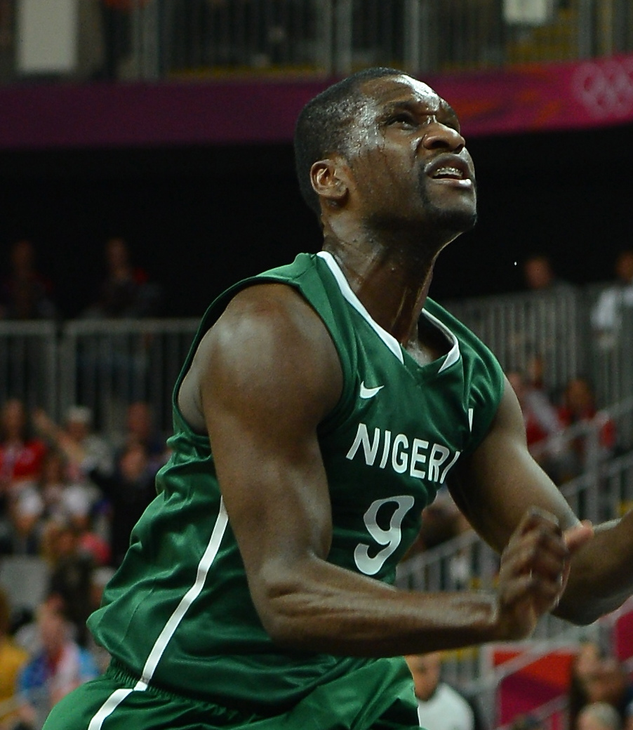 Mansoor Ahmed photos of Team USA basketball at London 2012 Olympics. Posted via email from Globalite Magazine